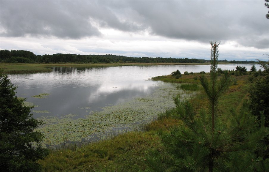 View from the path starting from Slobodka guest village of the Braslau Lakes national park. This guest village is located about 8 km northeast of Braslau town (Браслаў, Браслав, Braslav, Braslava, Breslauja), in the western Vit(s)ebsk region (province), Belarus.